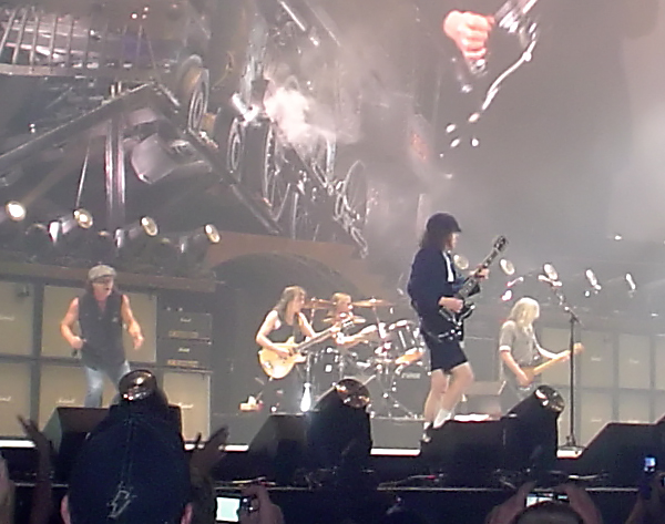 AC/DC in Tacoma, August 31, 2009. From left to right: Brian Johnson, Malcolm Young, Phil Rudd, Angus Young and Cliff Williams.